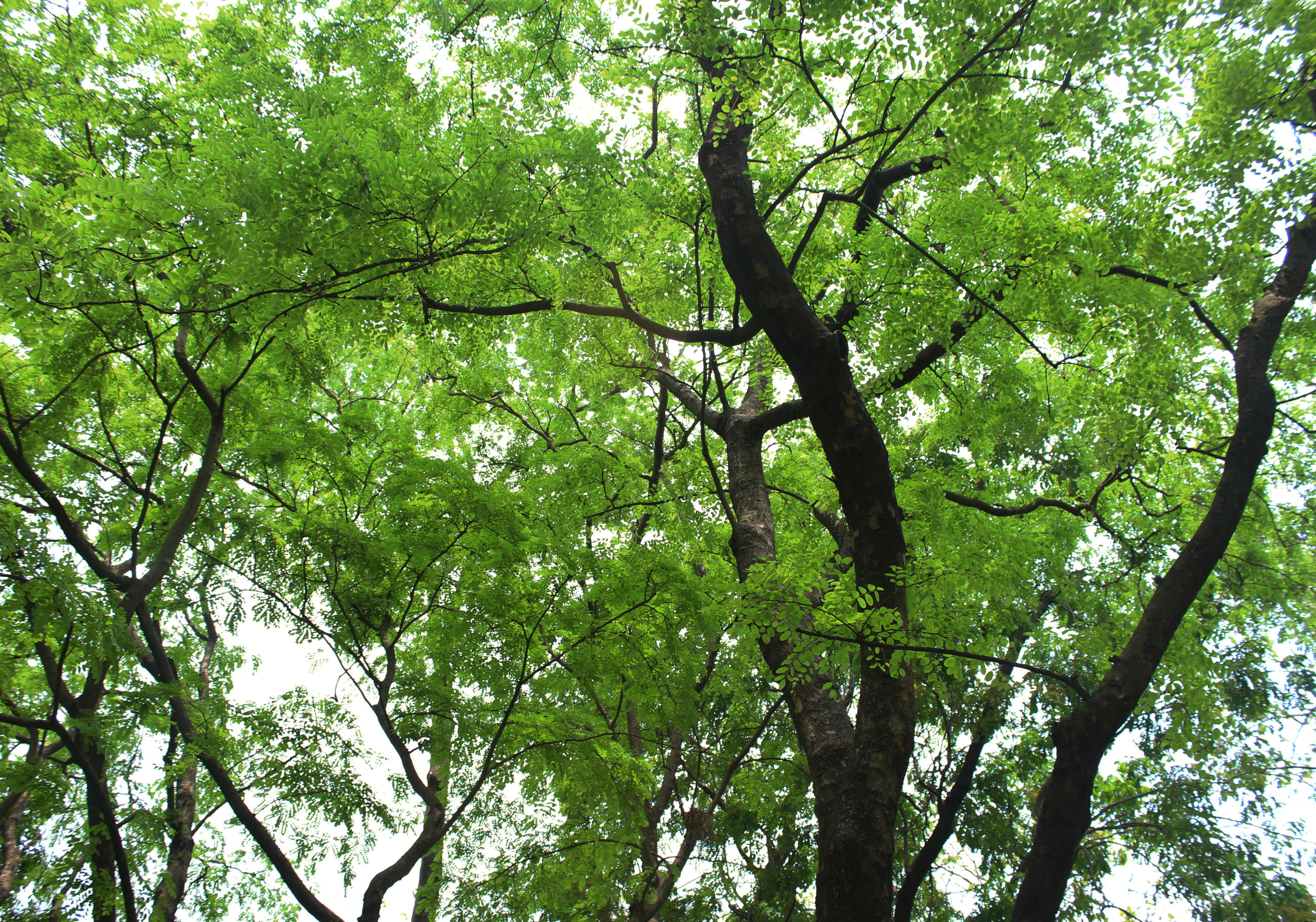 Tree name : Jhumur Ja Scientific name : Derris robusta